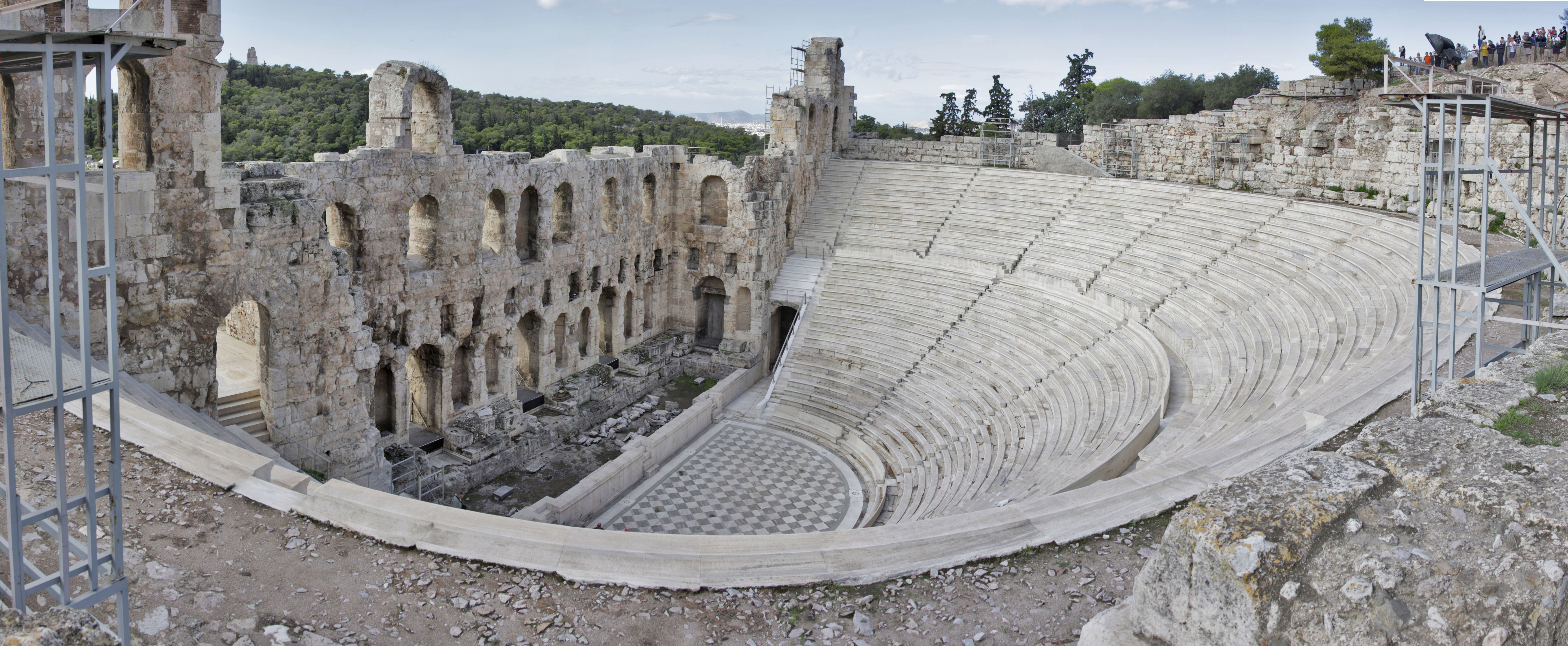 Odeon of Herodes Atticus